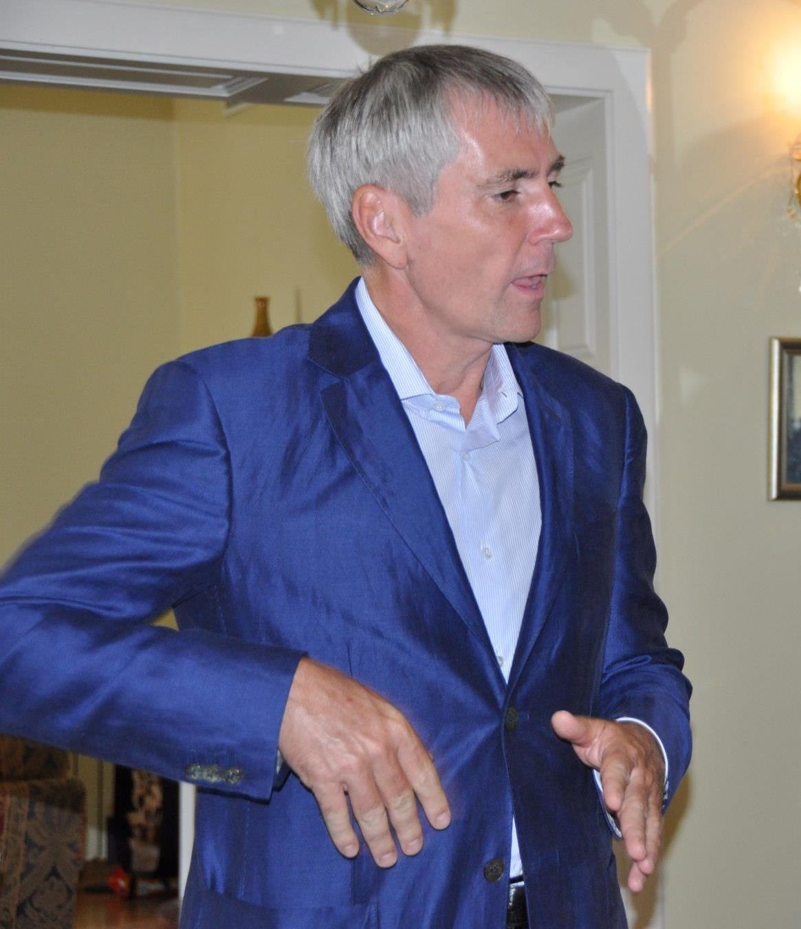 Sandi Češko (1961-)